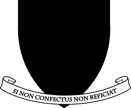 Coat of arms of Vetinari family. Blazon: "Sable".